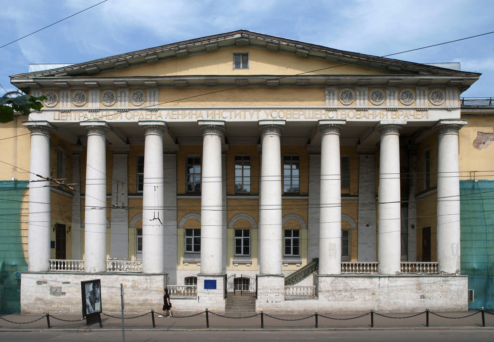 Widows' House, Moscow (1820s, originally an almshouse for women, now a medical college).